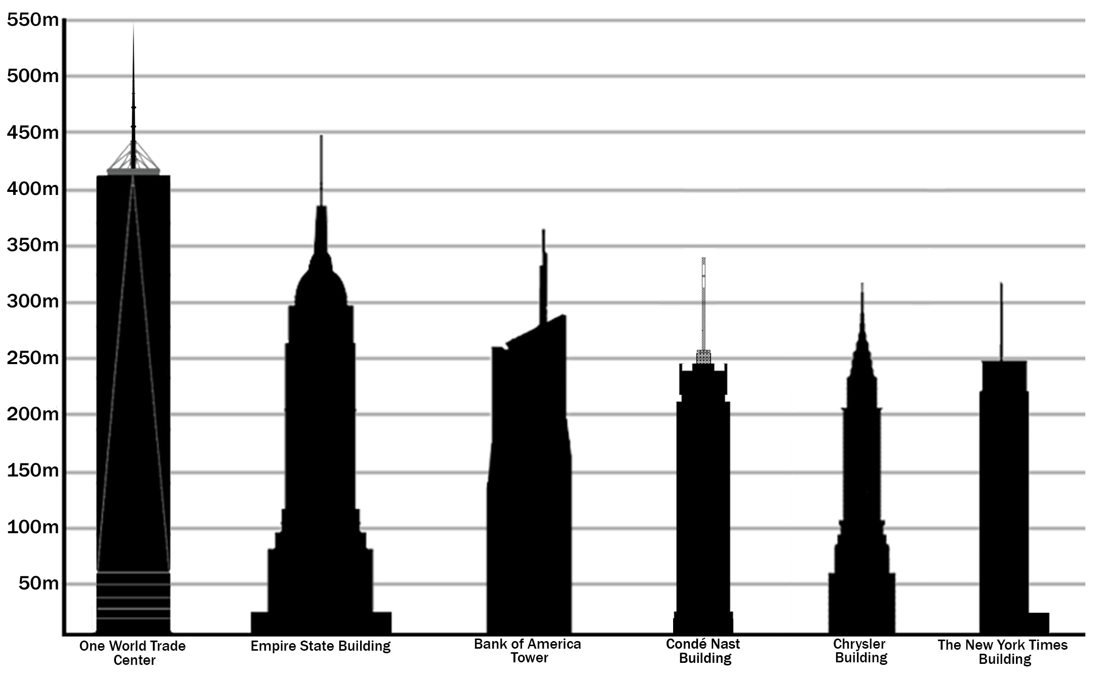 Tallest buildings in New York by pinnacle height (includes antenna masts), used data from .